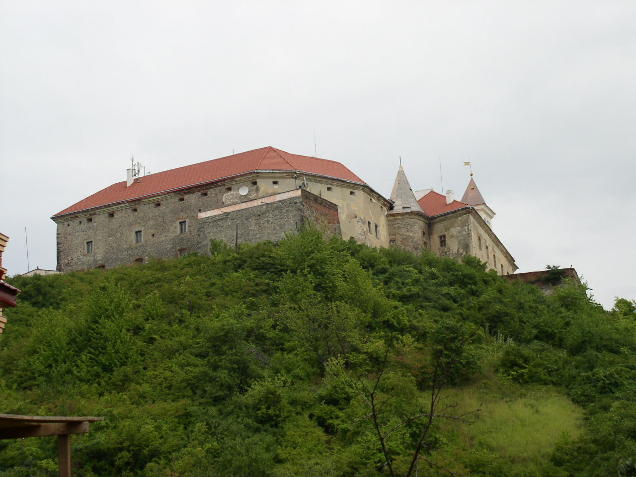 Palanok сastle. Mukacheve, Ukraine.